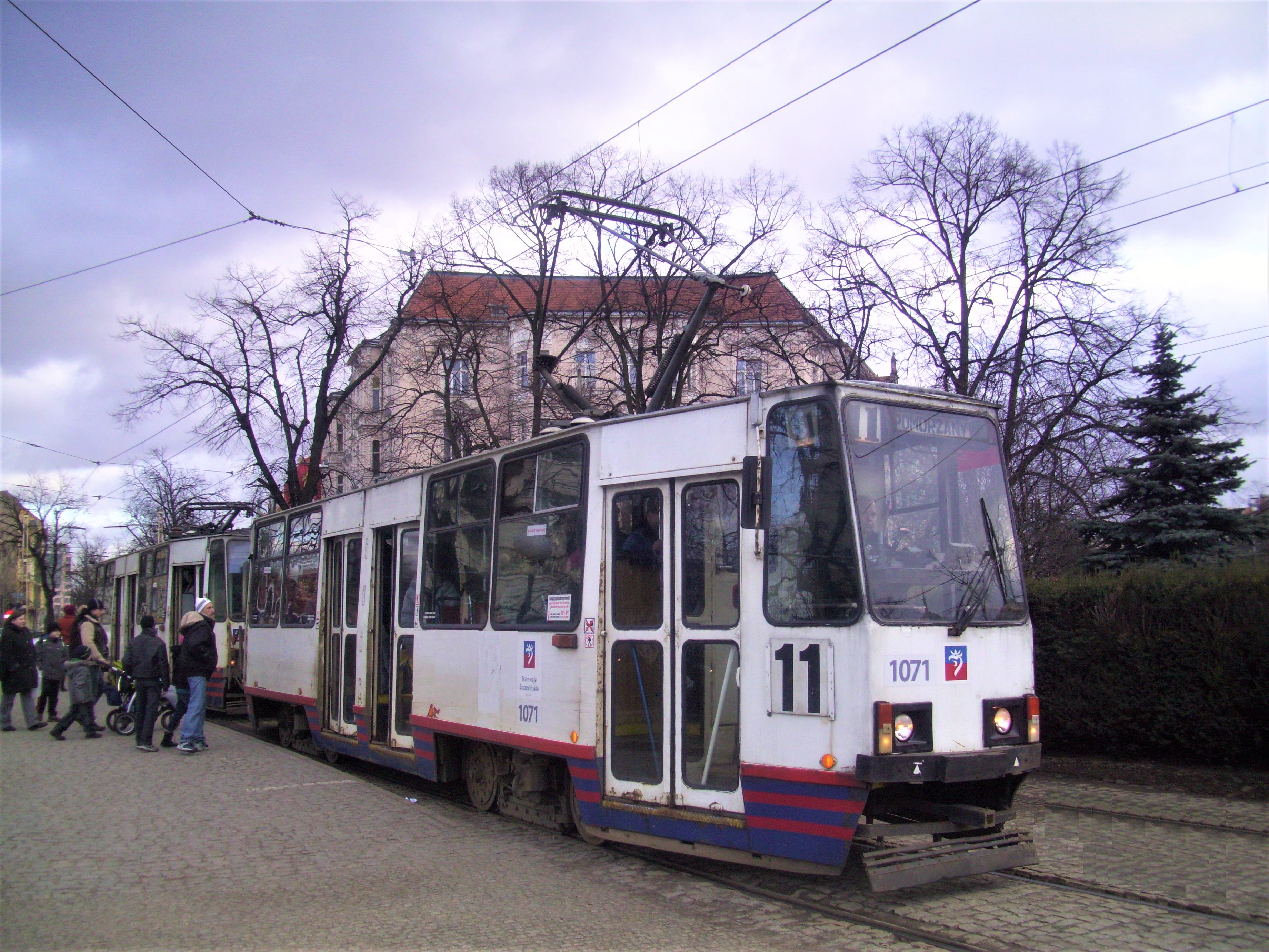 A Konstal 105Na trams at Grunwaldzki tram stop in Szczecin, Poland.